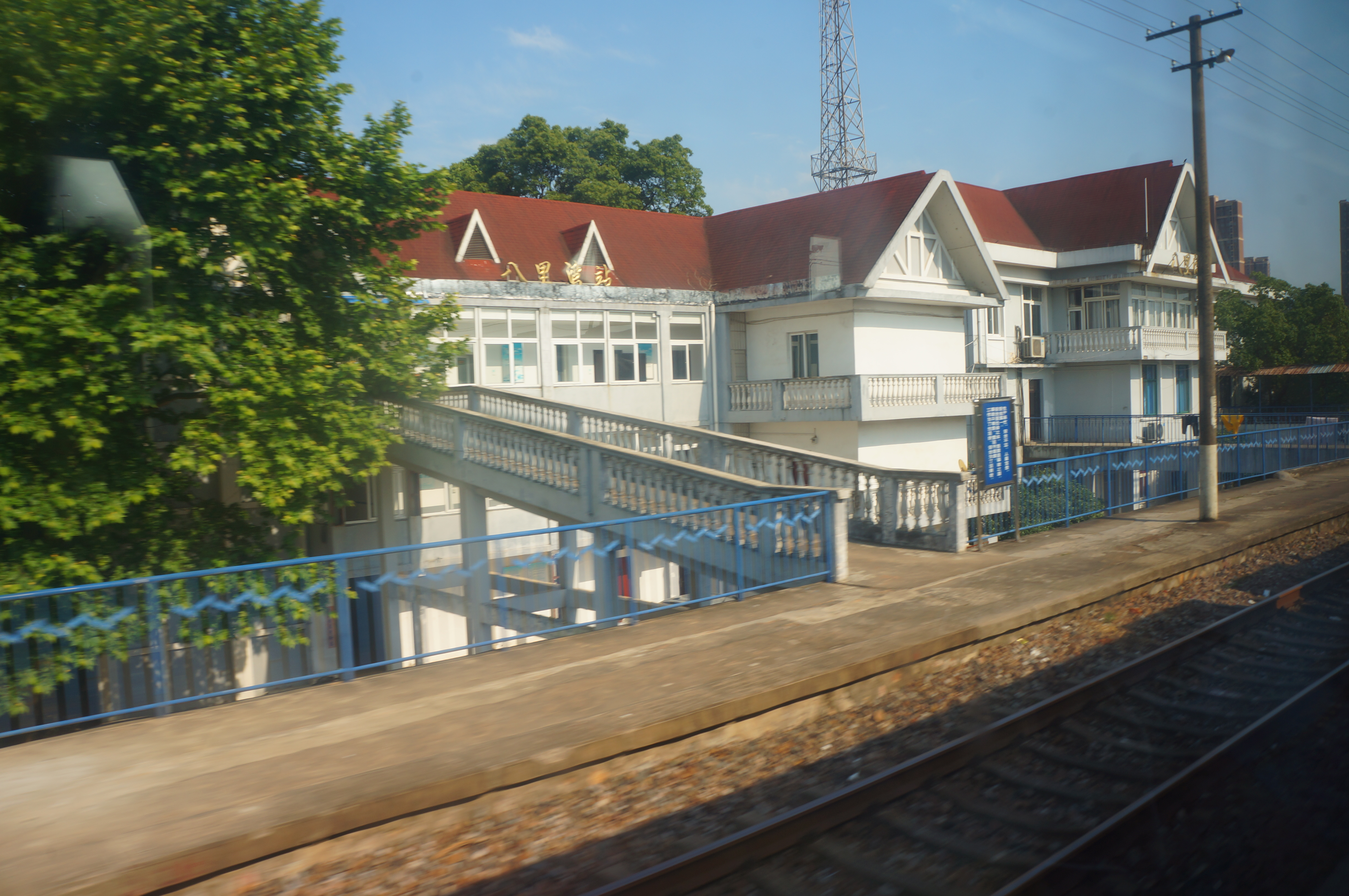 201705 Station Building of Baliwan Station